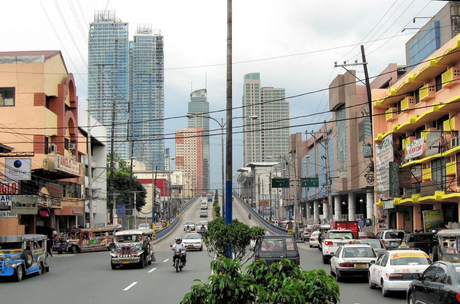 Shaw Boulevard (looking east), Mandaluyong City, the Philippines